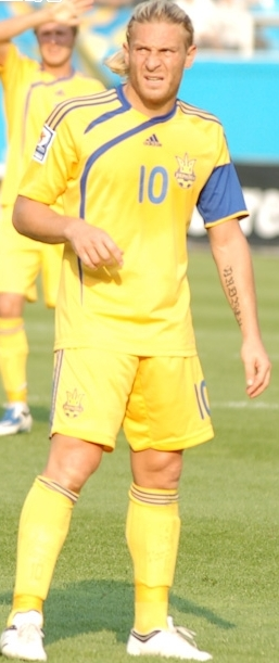 Andriy Voronin in Ukraine national football team